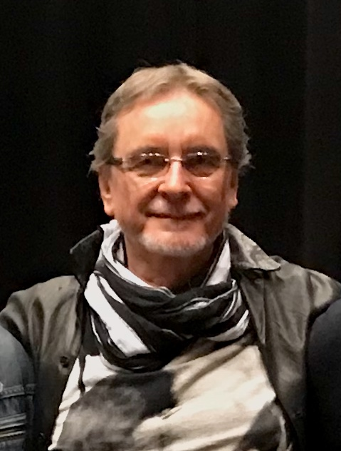 Jiří Kylián, Czech choreographer and dancer